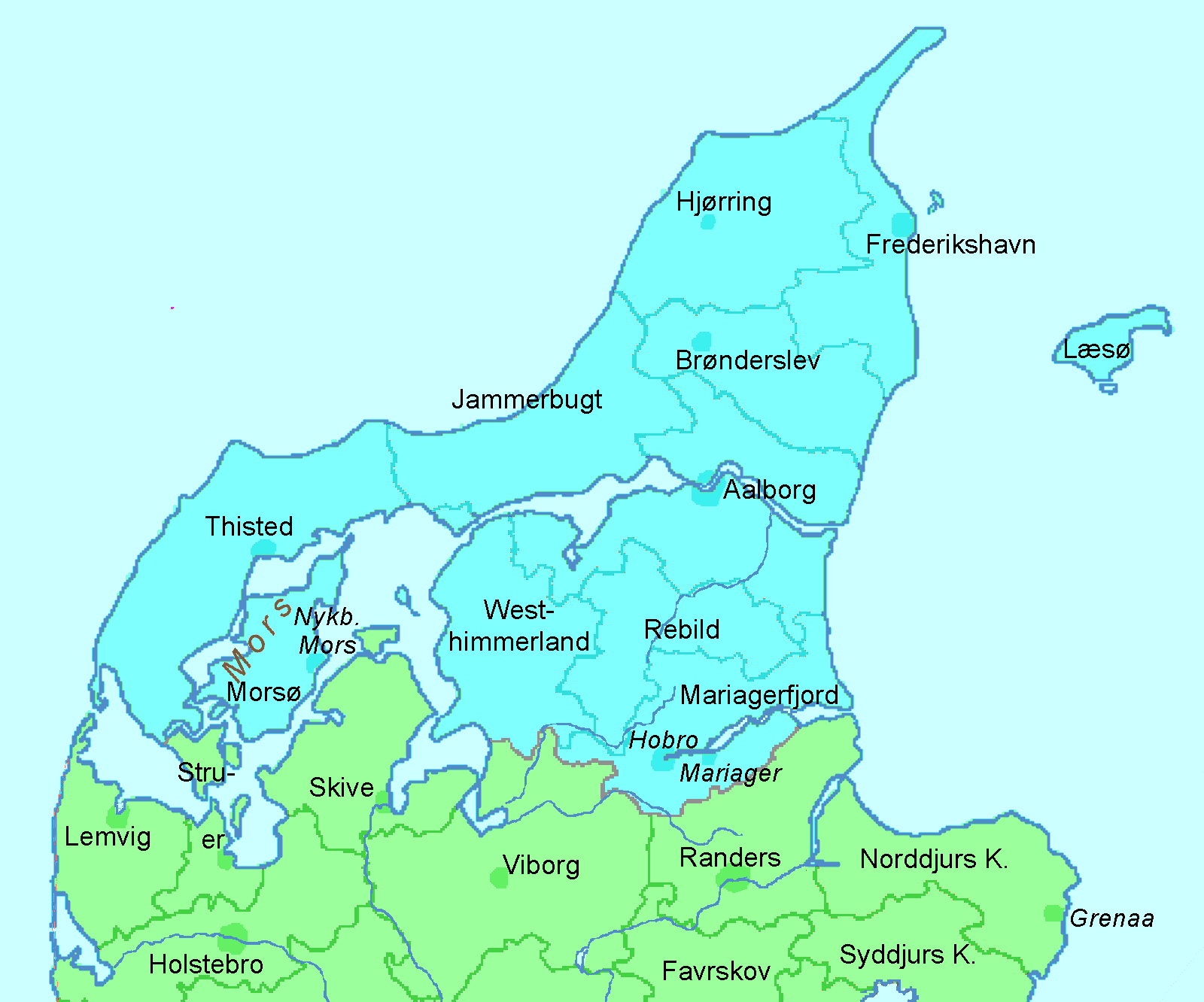 Municipalities of Denmark effective January 1 2007.